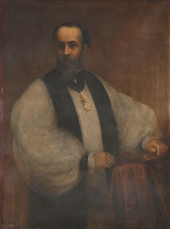 This is an oil painting on canvas by Washington Bogart Cooper of Charles Todd Quintard, second Bishop of the Episcopal Diocese of Tennessee. He was also a chaplain of the First Tennessee Infantry Regiment during the United States Civil War. This portrait was painted during his time as the first Vice Chancellor of the University of the South (Sewanee) from 1867 to 1872. The image is in the public domain because it is a faithful reproduction of a portrait painted by Cooper, who died in 1888.